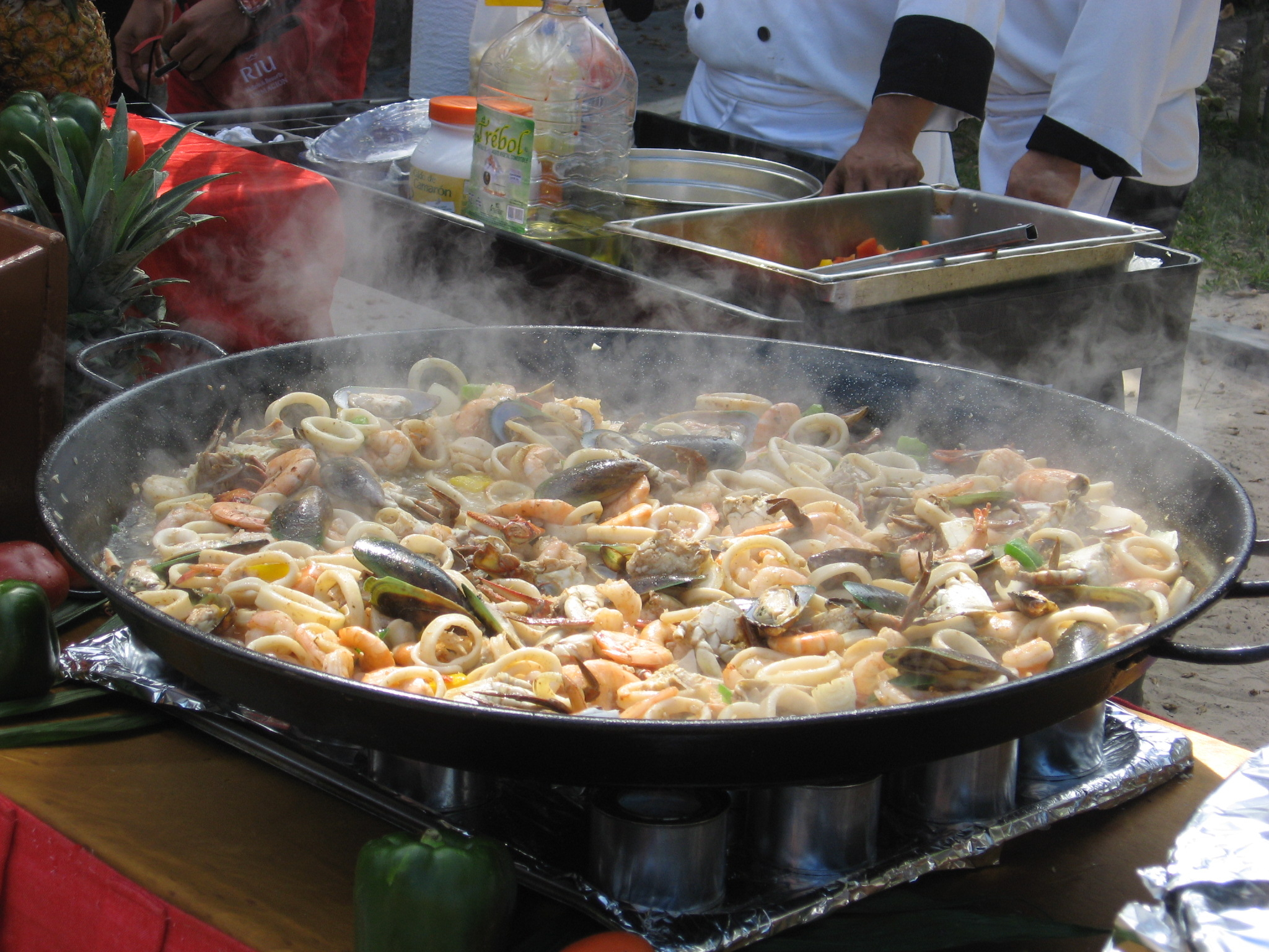 A variety of seafood to which rice will be added to make Paella